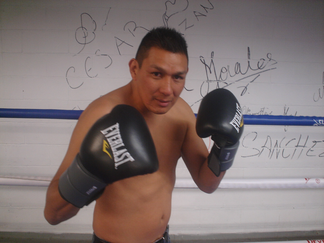 Cesar Bazan at Tito´s Gym in Mexico City